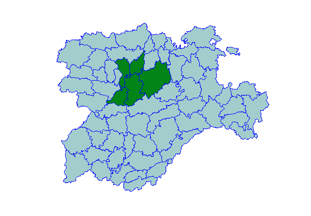 Map of Tierra de Campos, Castile and León.